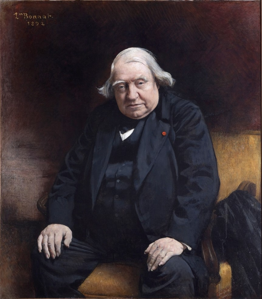 Portrait of Ernest Renan